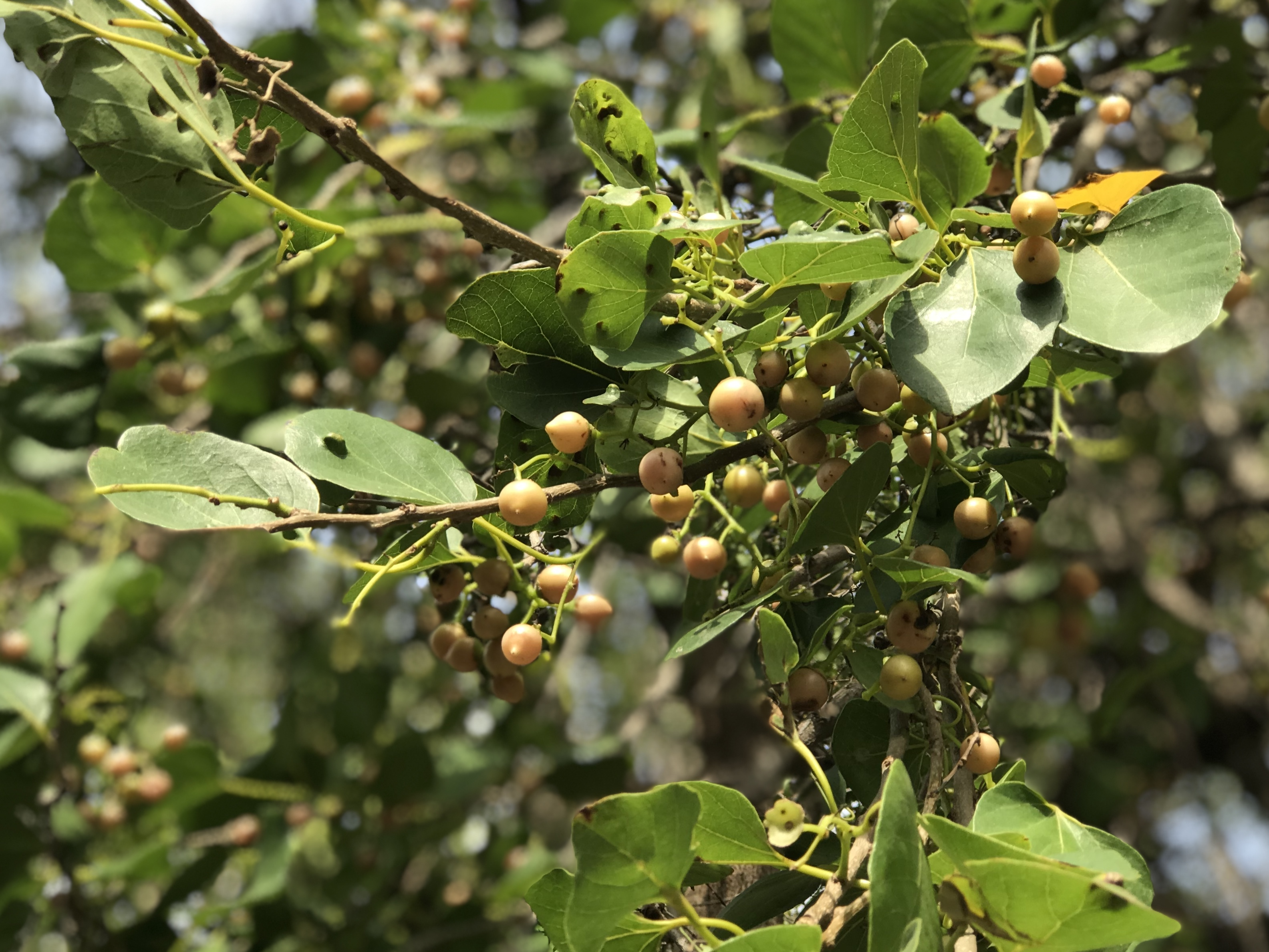 Cordia dichotoma tree, sangrur, punjab